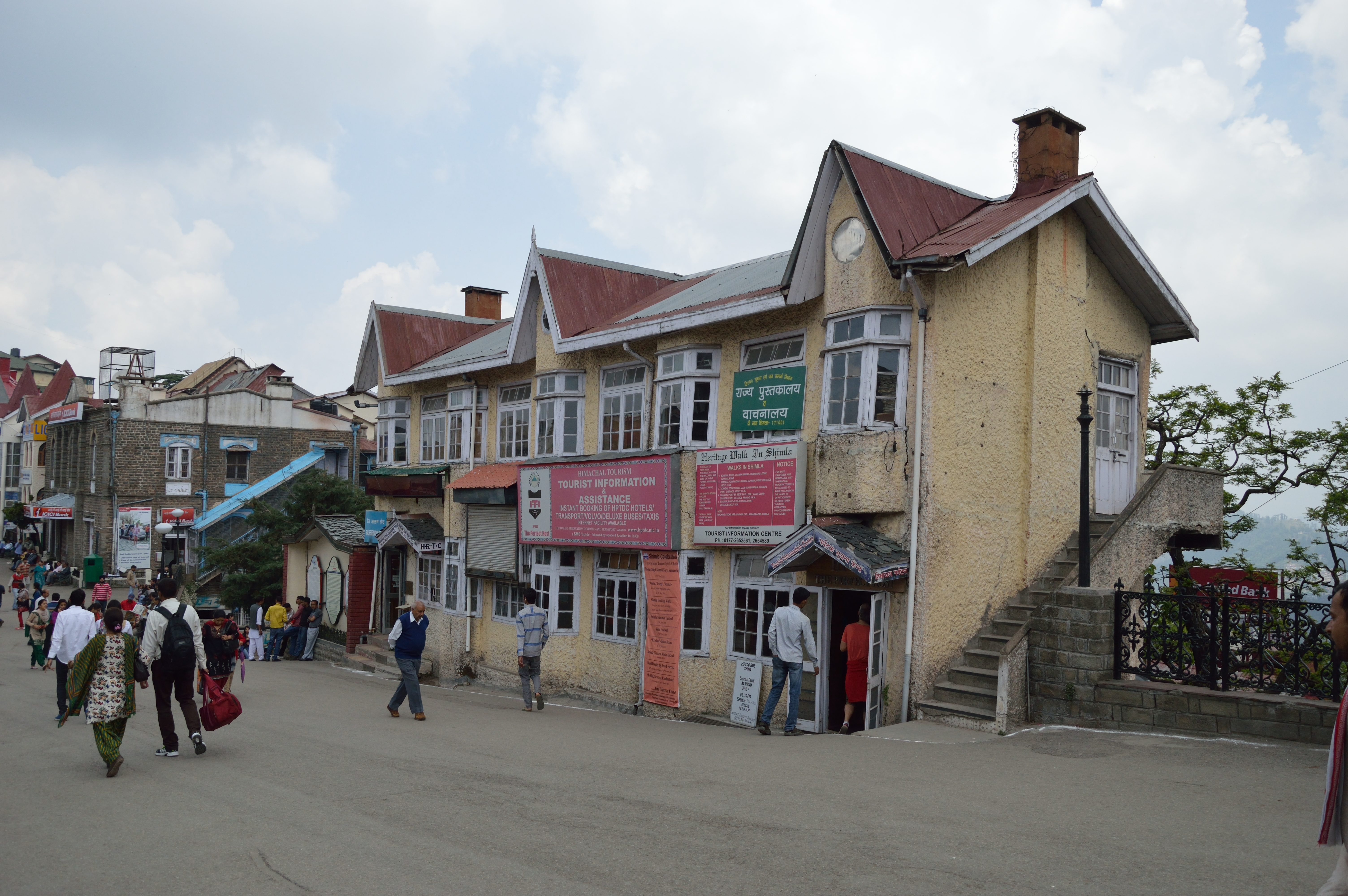 Photographed in Shimla. This photograph has been uploaded during the 'Wiki Loves Monuments 2014' from India.